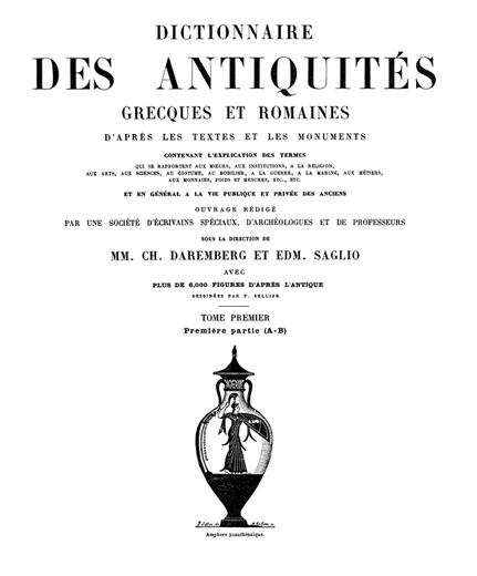 Dictionnaire des Antiquités Grecques et Romaines french lexicon of the ancient world.